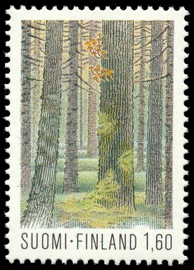 Finnish nature park "Seitseminen"